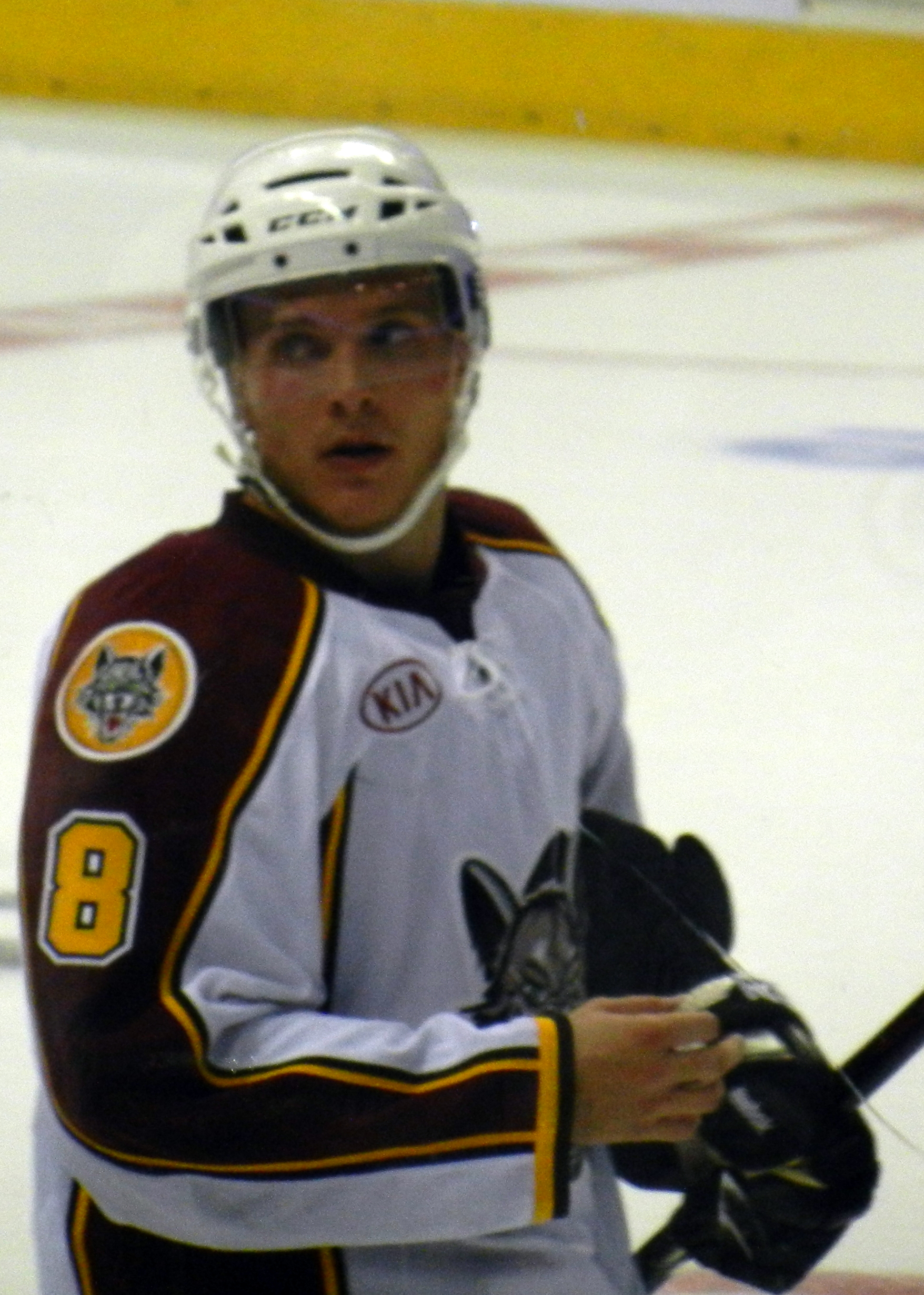 Patrick Mullen playing for the Chicago Wolves during the 2012-13 AHL season